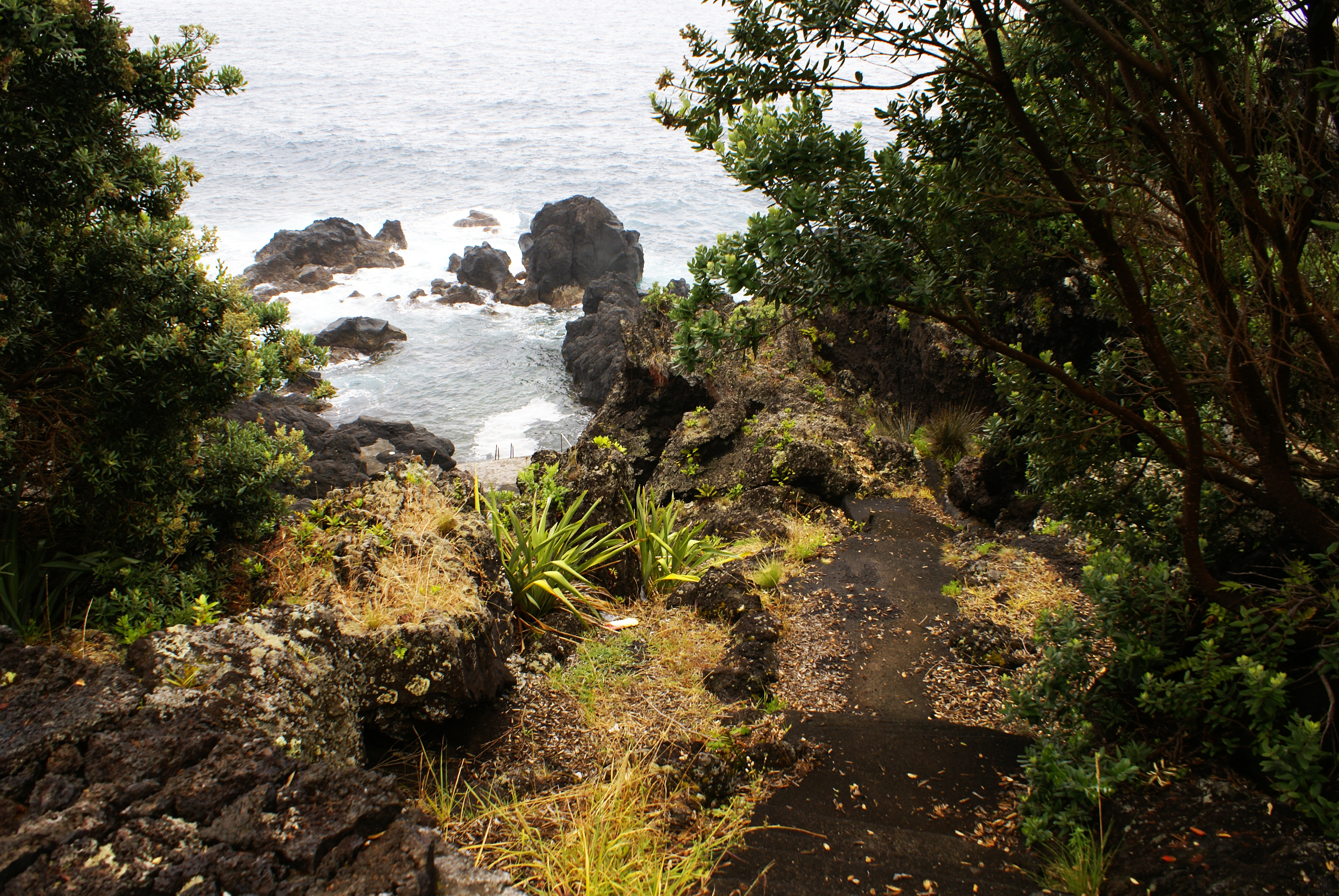 Zona Balnear e de Lazer das Arinhas, São João, Lajes do Pico